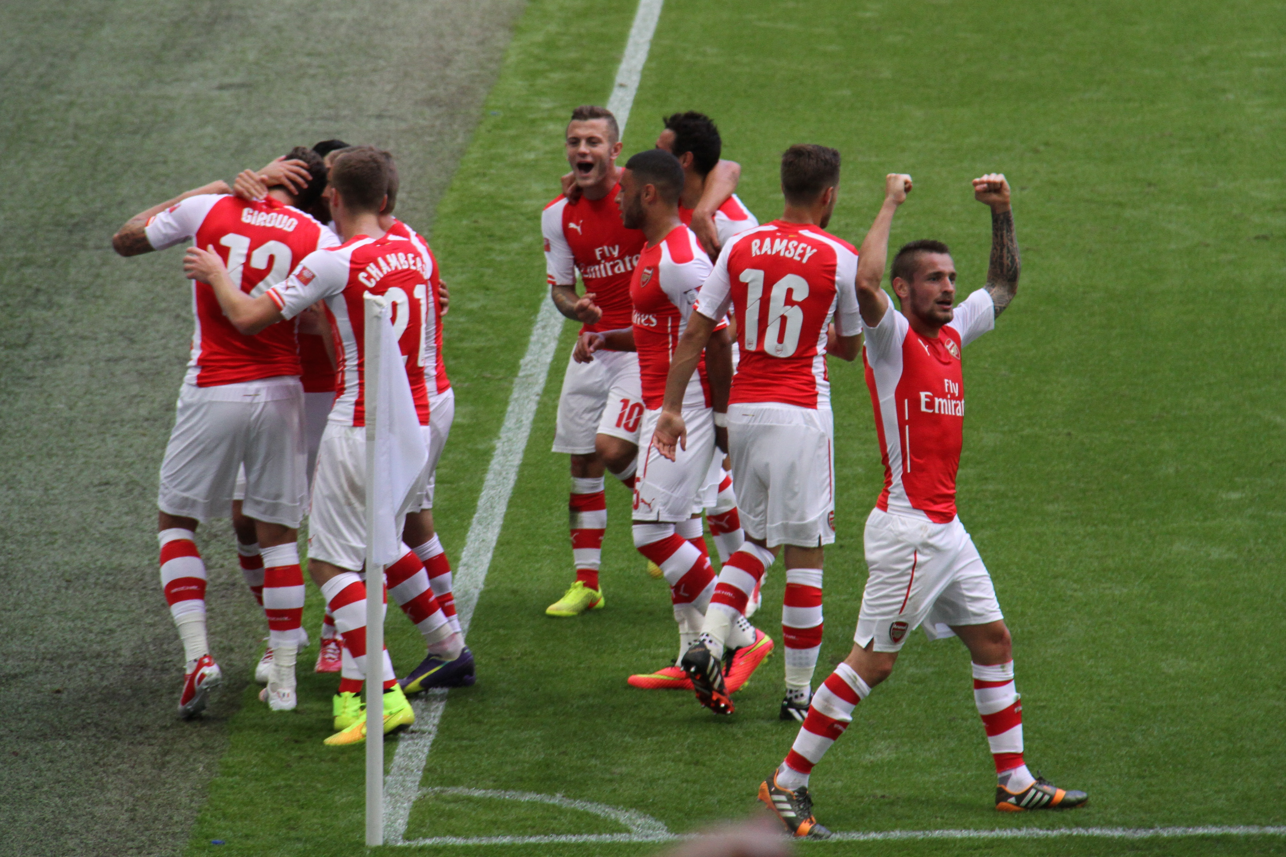 Community Shield 31 - Celebrating Giroud's goal